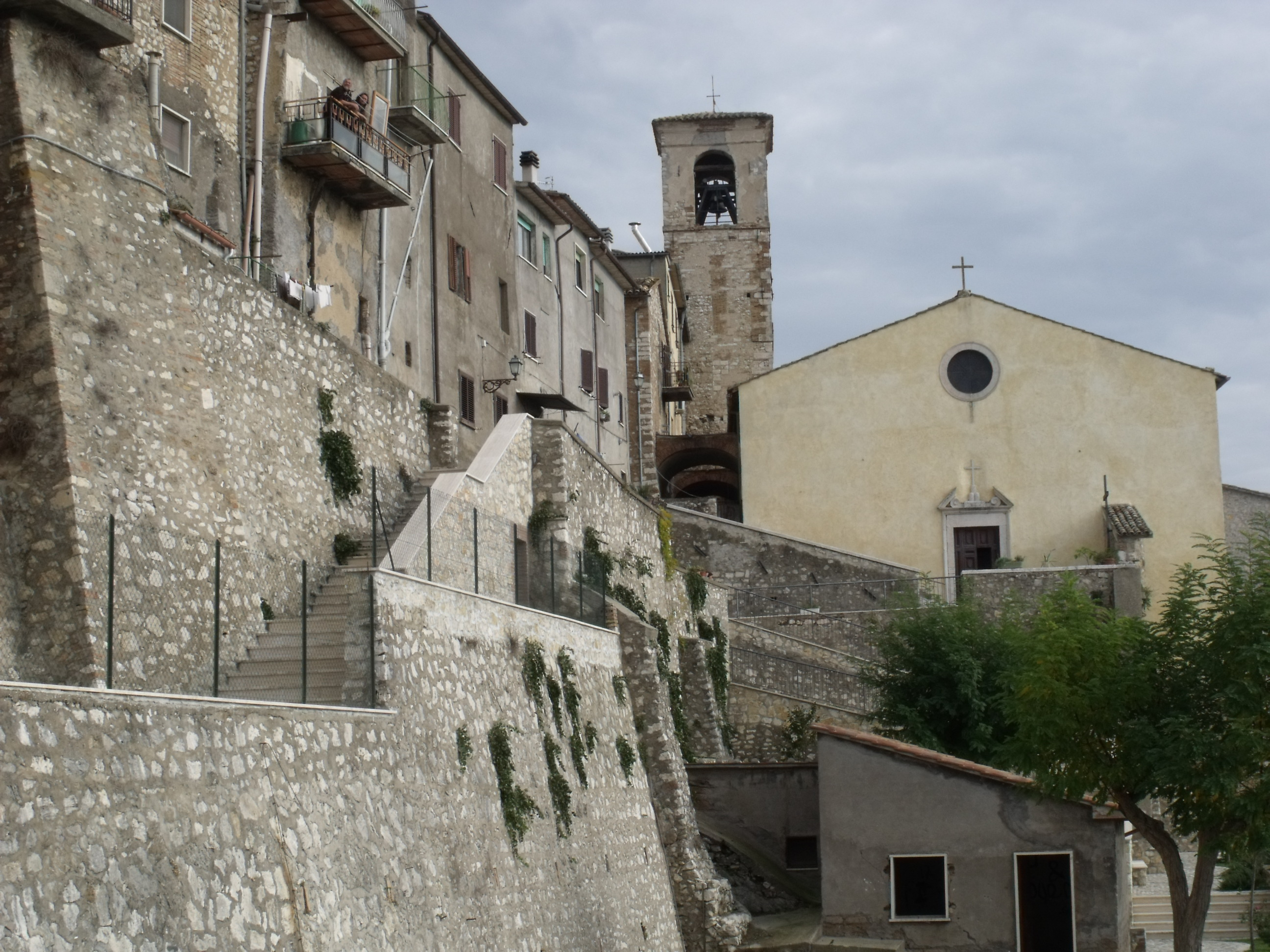 Church SS. Pietro e Paolo in Alviano, Province of Terni, Umbria, Italy